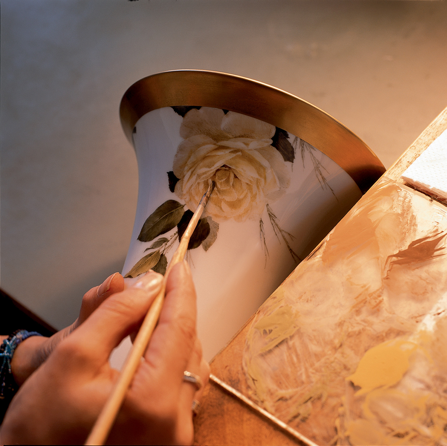 Porcelaine production, painting of a vase by hand